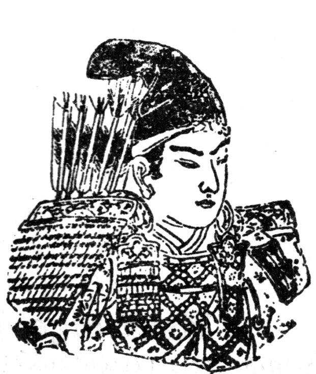 Portait of Kusunoki Masatsura